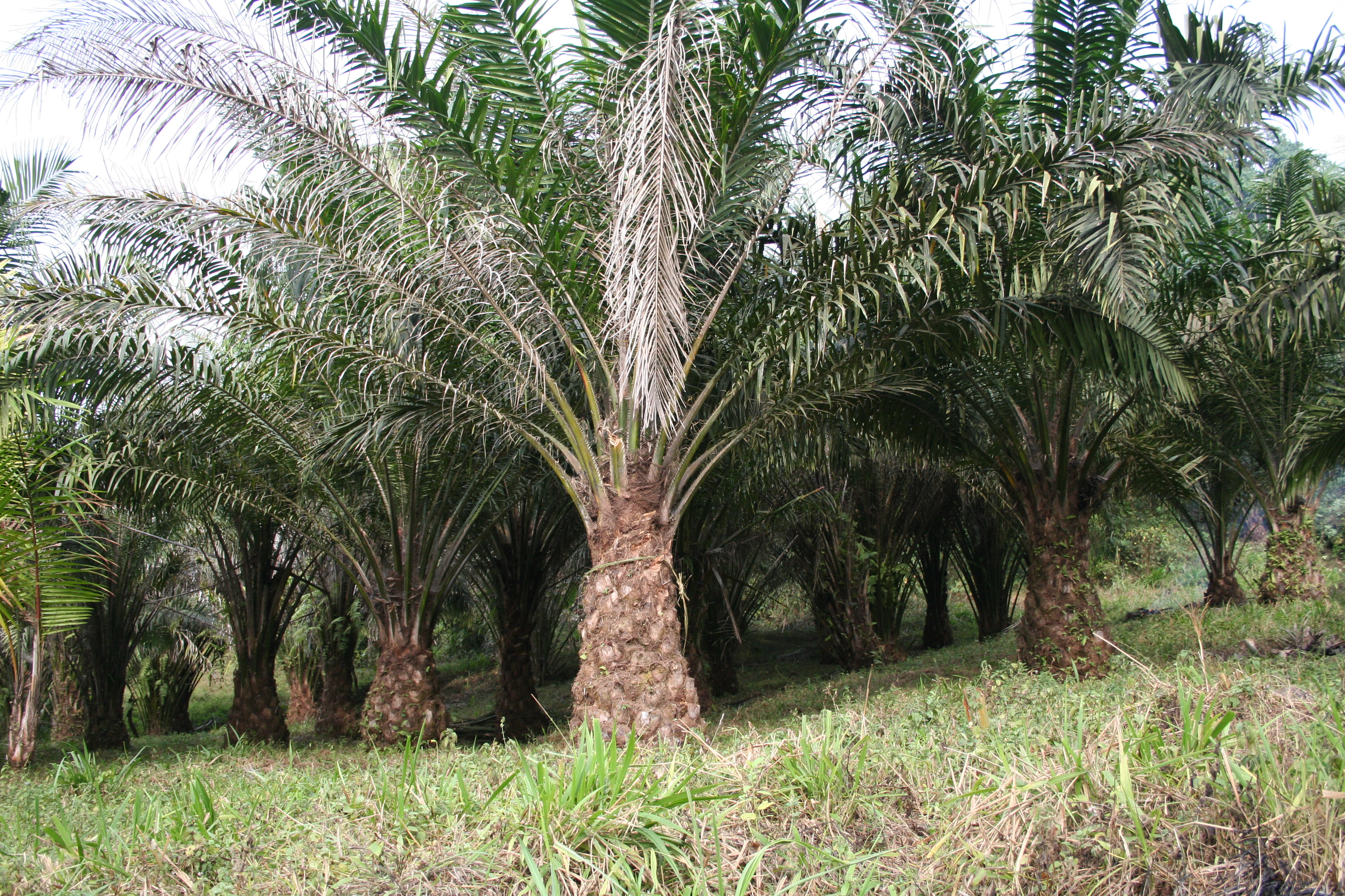 Oil palm plantation on the slopes of Mt. Cameroon